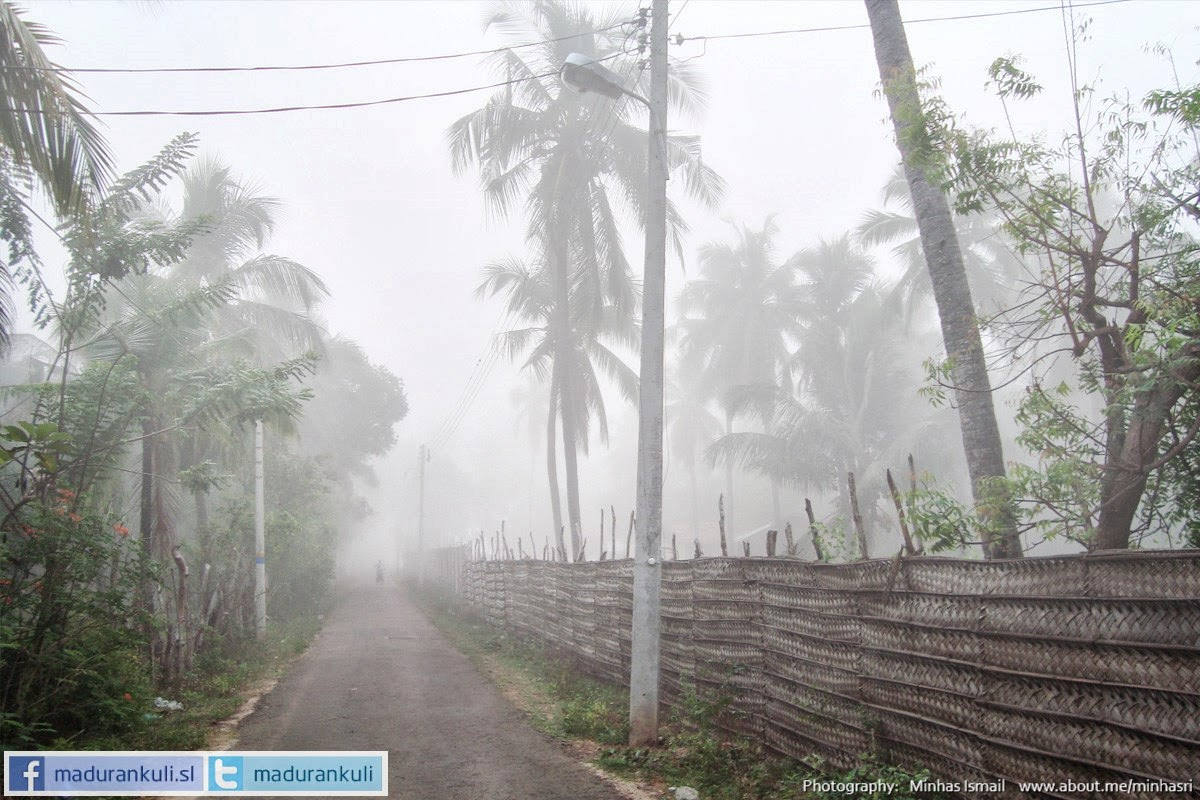 Misty Morning in Madurankuil